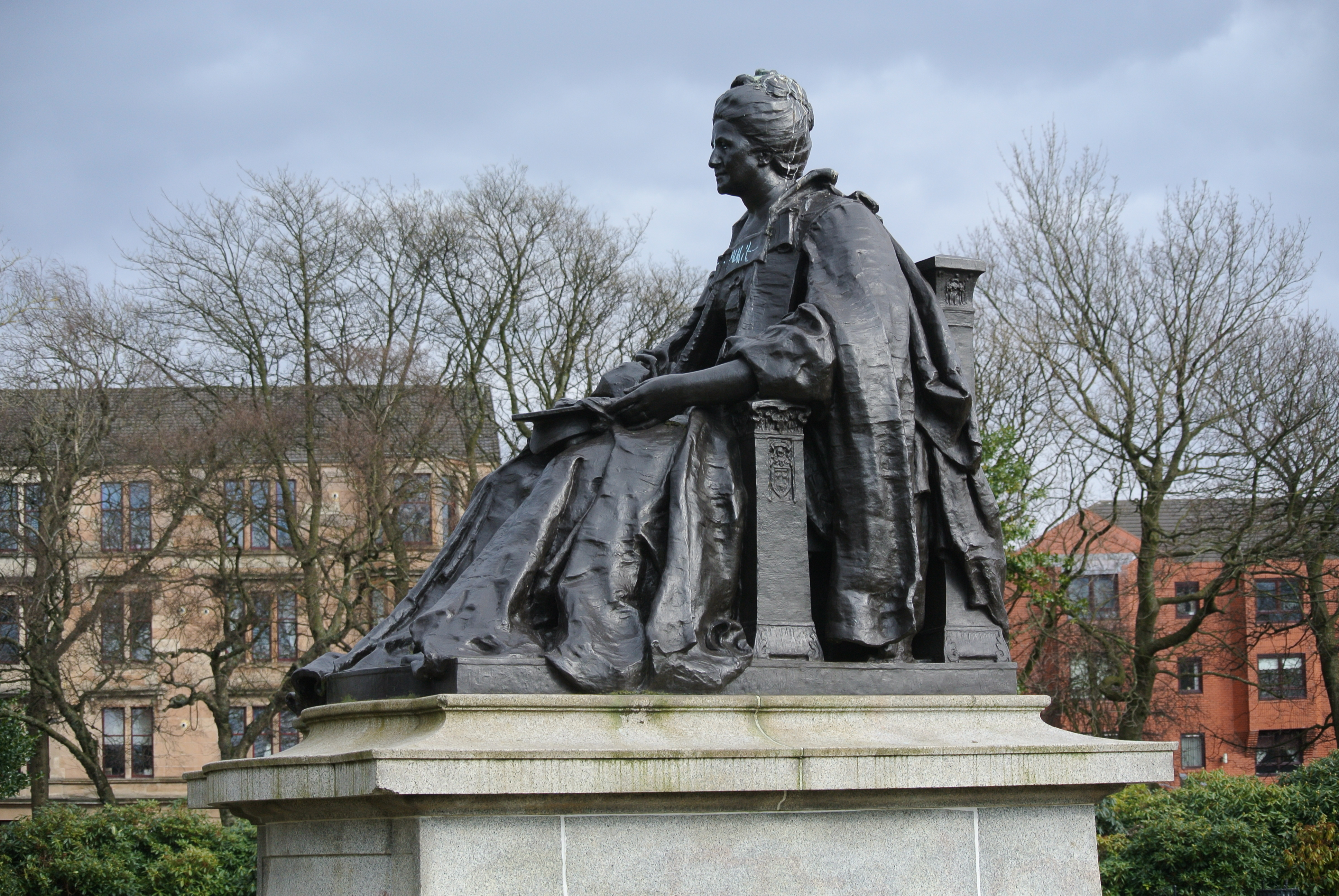 Statue of Isabella Elder, Elder Park, Govan, Glasgow